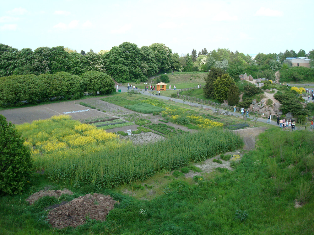 Spice plants collection - at National M. M. Grishko botanical garden (Kiev, Ukraine).